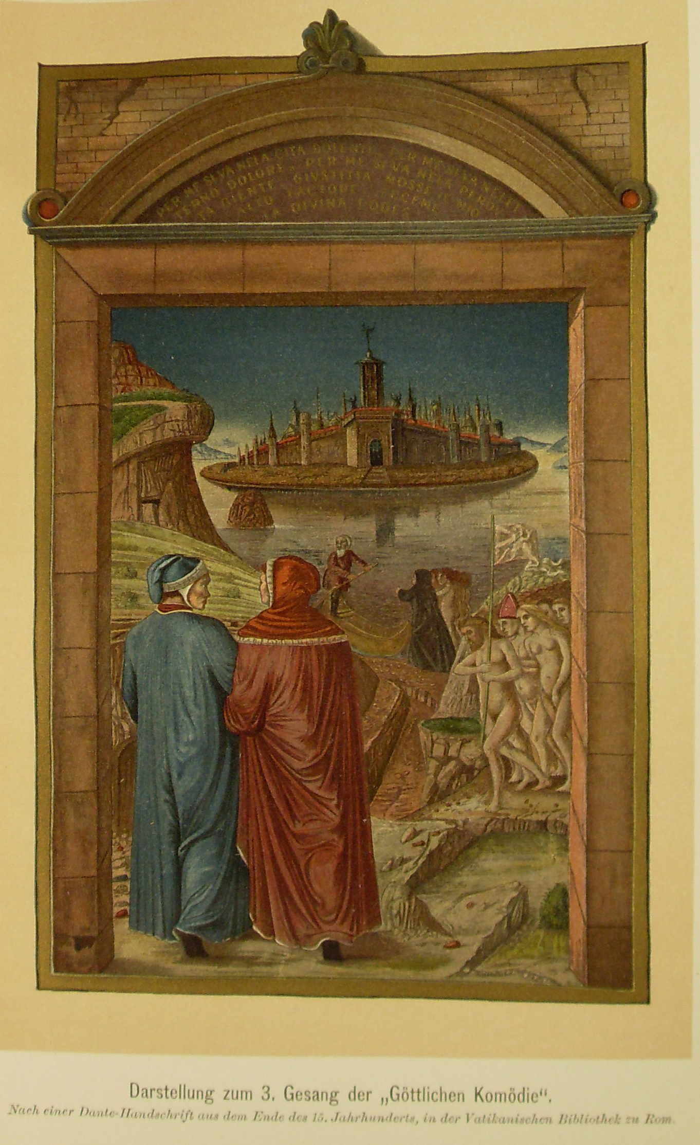 third singing "divine comedy"